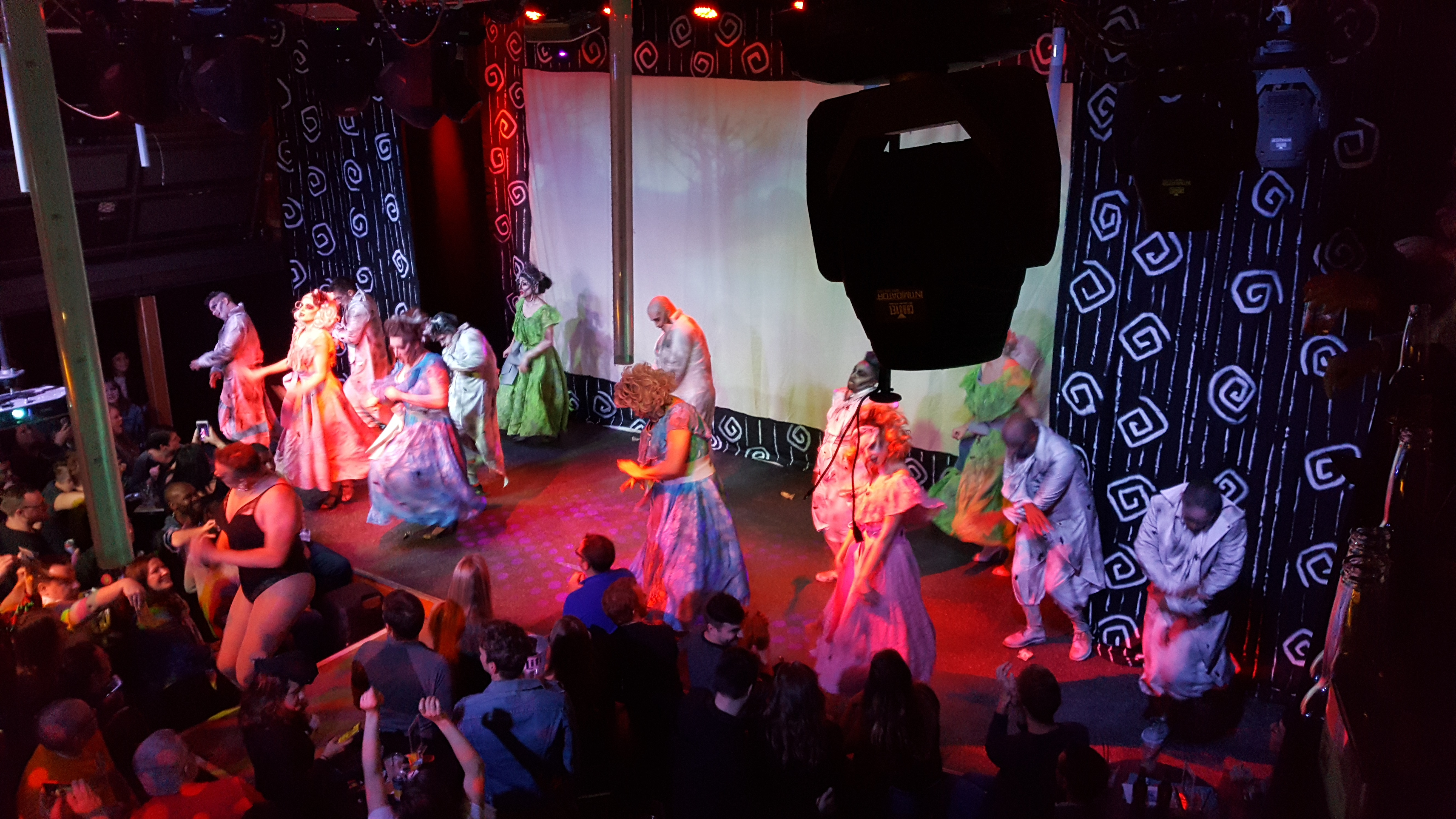 Nina West's annual Halloween show at Axis, Columbus, Ohio, October 2018